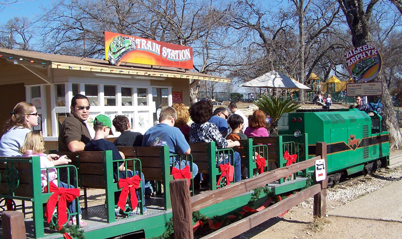 Zilker Park train, Austin, Texas, United States